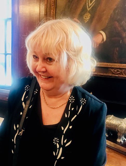 Professor Tilli Tansey at the Sydenham Lecture, Worshipful Society of Apothecaries 2018